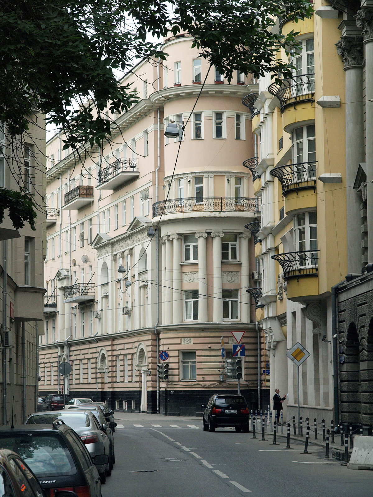 Yermolayevsky Lane, view towards corner of Malaya Bronnaya Street, Moscow.